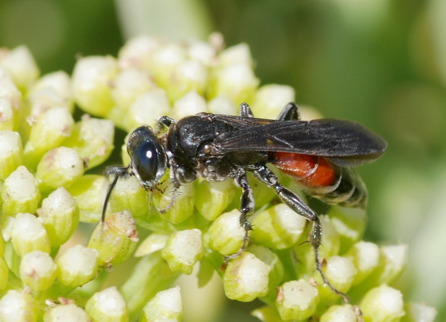 Solitart wasp (male Larra anathema)